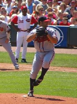 Jason Shiell of the Atlanta Braves delivers a while Juan Castro of the Cincinnati Reds leads off first base during a 2006 game at Great American Ball Park in Cincinnati.